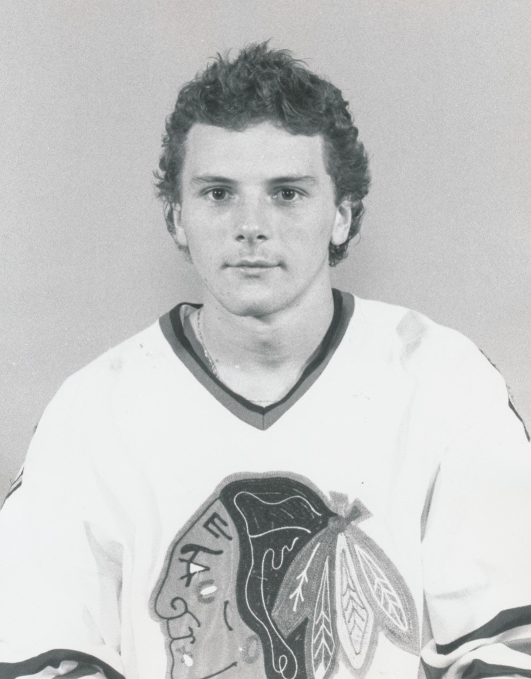 Ken Yaremchuk in 1984